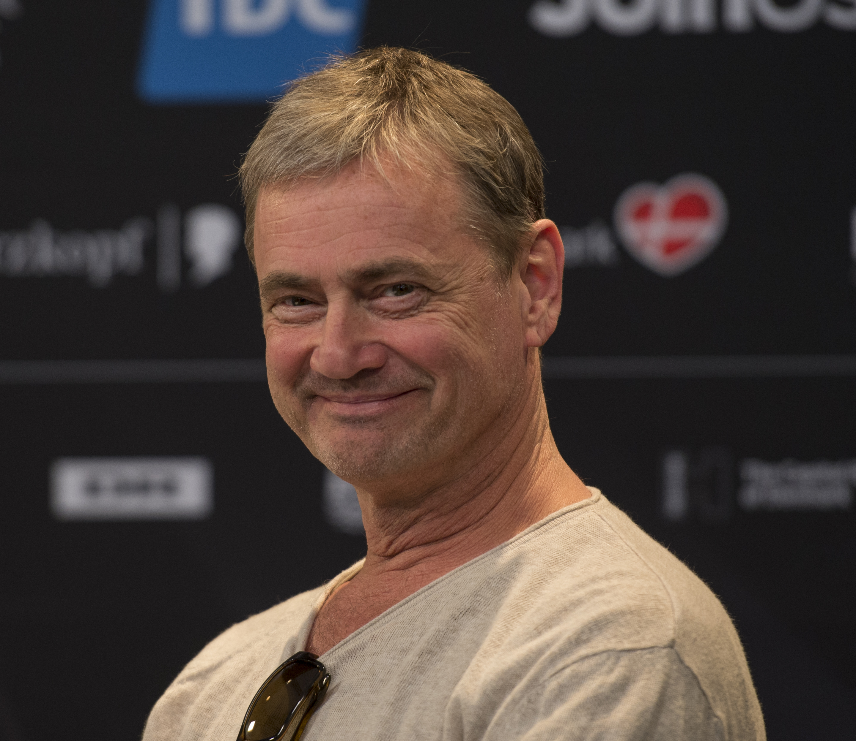 Christer Björkman at a Meet & Greet during the Eurovision Song Contest 2014 Copenhagen. (Help translate this text)